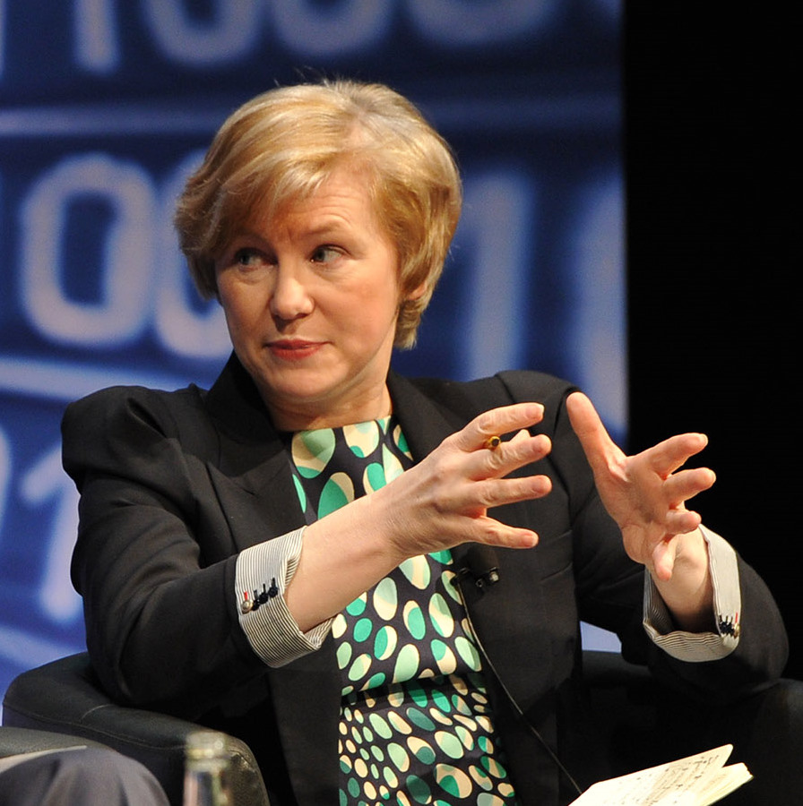 BBC Director of Sport Barbara Slater at the 'Question of Sport' session at the Nations & Regions Media Conference, organised by the University of Salford, at The Lowry 13 March 2012.